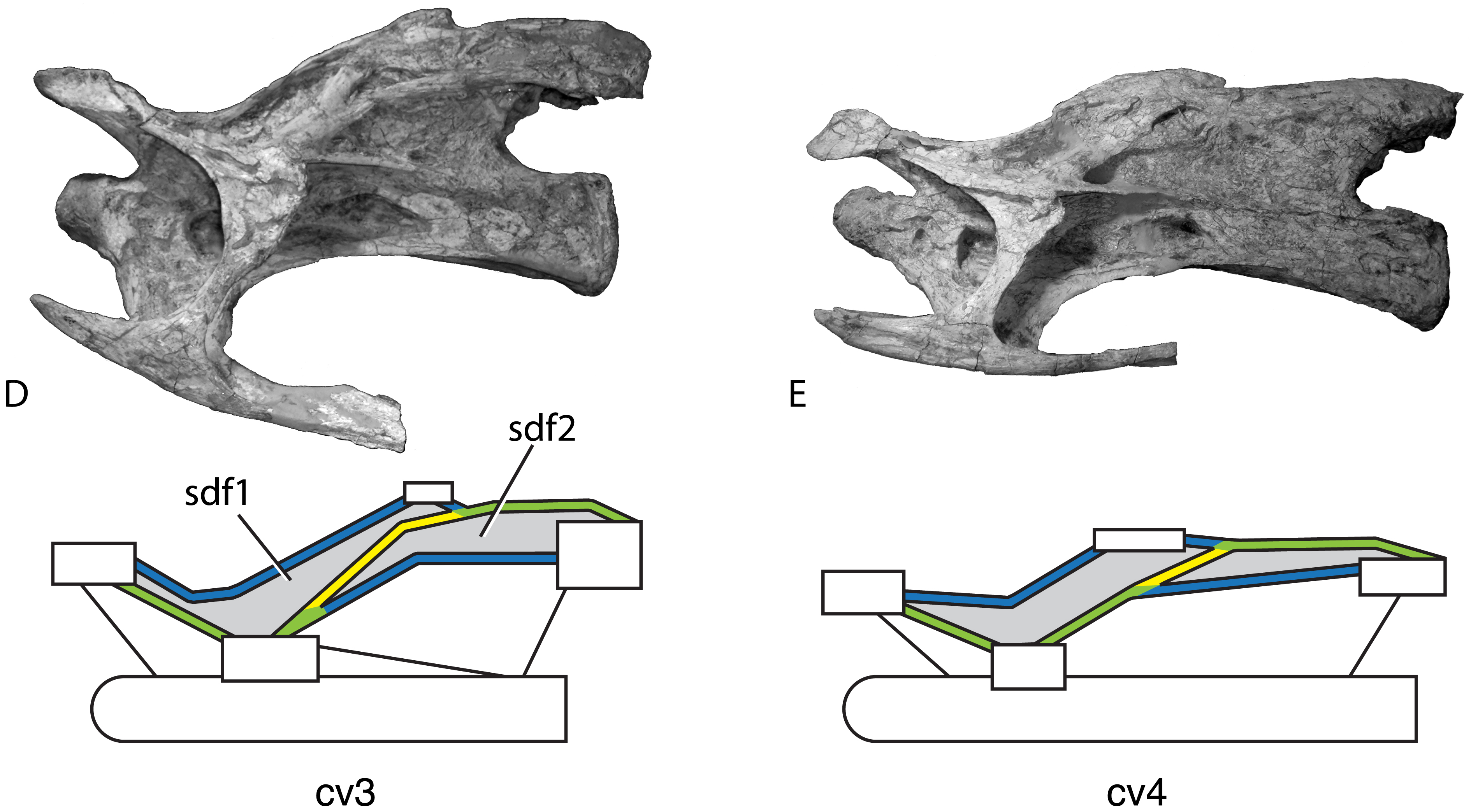 Variable development of the epipophyseal-prezygapophyseal lamina (eprl) and the divided spinodiapophyseal fossa (sdf) in cervical vertebrae of Erketu ellisoni. Examples of conjoined eprl and the identification of the fossae they bound are given using the holotypic cervical vertebrae of Erketu ellisoni (IGM 100/1803; D, E) in left lateral view, with diagrammatic representation of laminae and landmarks bounding the sdf. Development of the eprl dividing the sdf is dependent on relative position of landmarks, particularly the separation of the summit of the neural spine (s) and the postzygapophysis (po), as well as the relative positions of the prezygapophysis (pr) and diapophysis (d). Taxa with extremely elongate cervical vertebrae, such as Erketu, may have a slightly different arrangement of connectivity between the eprl, spino-zygapophyseal laminae, and zygapophyseal-diapophyseal laminae, although the presence of the eprl can still be traced.